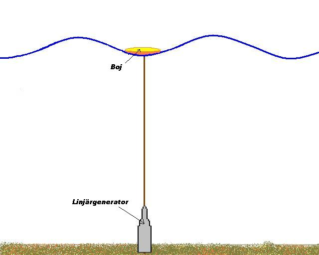 The basic principle of the WEC used in the Lysekil project